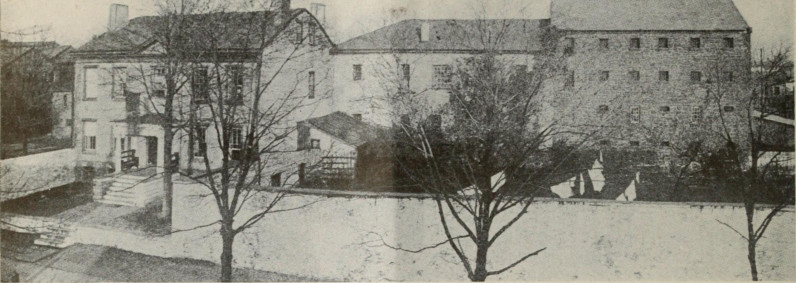 Title: The Survey October 1917-March 1918 Year: 1918 (1910s) Authors: Survey Associates Charity Organization Society of the City of New York Subjects: Charities Social problems Publisher: (East Stroudsburg, Pa., Survey Associates) Text Appearing Before Image: I d ill !.!.- THE EVOLUTION OF COUNTY JAIL ARCHITECTURE IN NEW JERSEY 592 THE SU RV EY FOR MARCH 2, 1 g 1 Text Appearing After Image: THE FIRST STATE PRISON OF NEW JERSEY, 1797-1836 guidance of the former superintendent, May Caughey, beenextremely useful in its effect upon girls, but it antedatesmost of the attempts of a similar nature that the public haslately been hearing about. The political virus has worked overtime in New Jerseyspenal system. Mr. Barnes made the interesting discovery thatevery keeper of the state prison from 1873 to the presenttime, and every supervisor since 1885, with one doubtfulexception, has been of the same political party as the appoint-ing power and generally active in party politics immediatelyprior to his appointment. Of course, the old argument hasbeen made that this method produces some good men. Macau-lay answered that argument years ago by remarking thatEngland would undoubtedly get a few good members ofParliament by choosing the hundred tallest men in the country.An ancient king was chosen by the neighing of his horse. Suchlogic quite falls to the ground, says the commission, whe